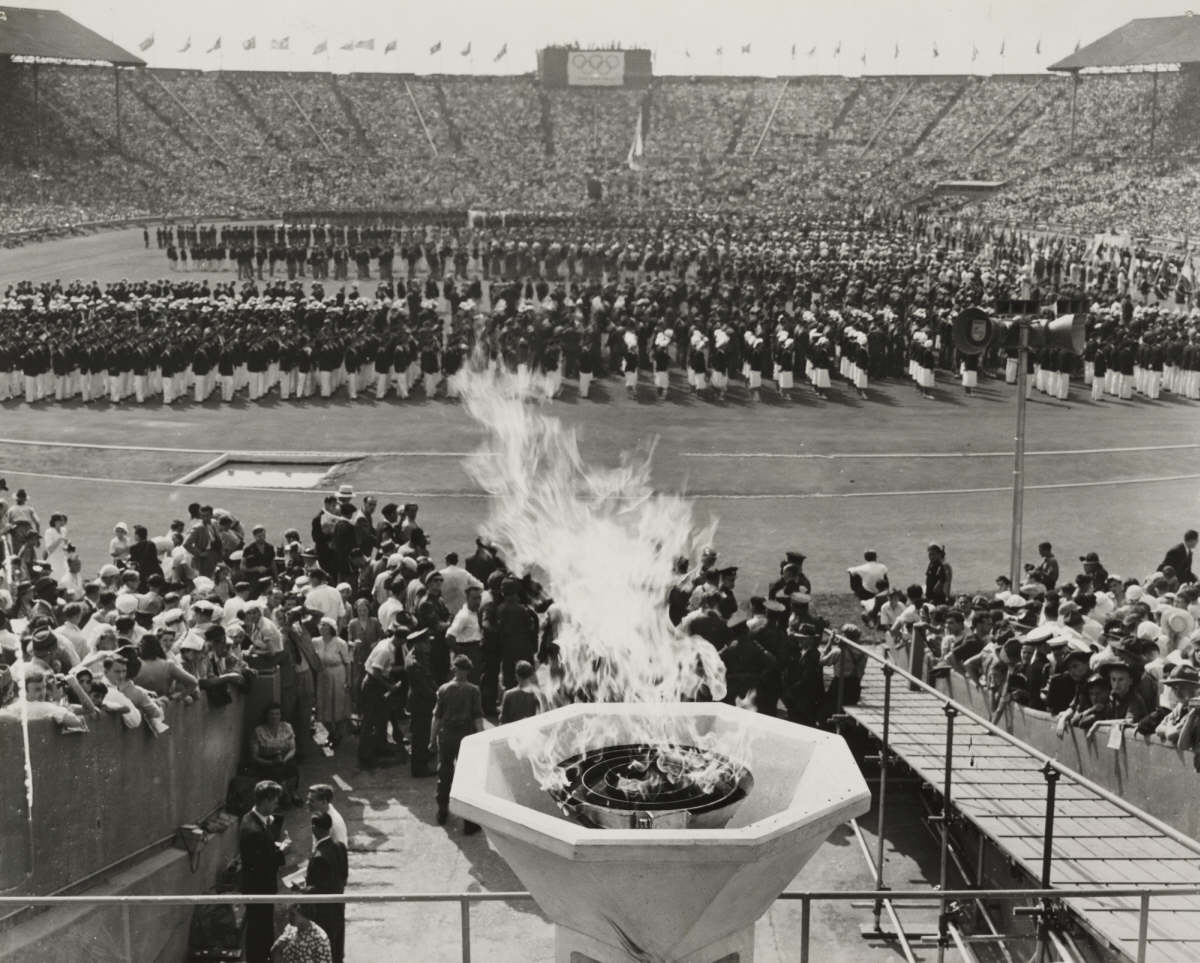 Opening of the 1948 Summer Olympics in London, 29 July 1948